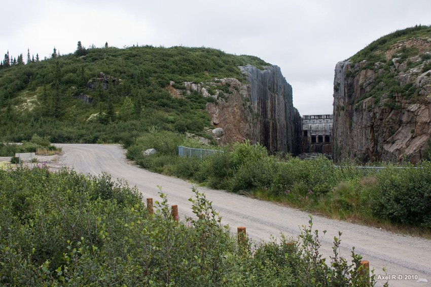 Brisay regulation structure